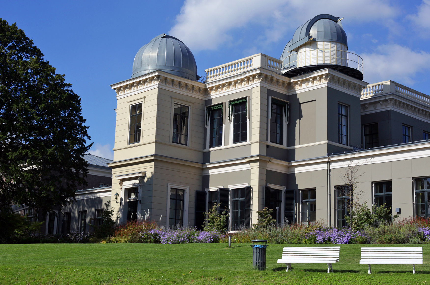 Leiden, Netherlands - Observatory.